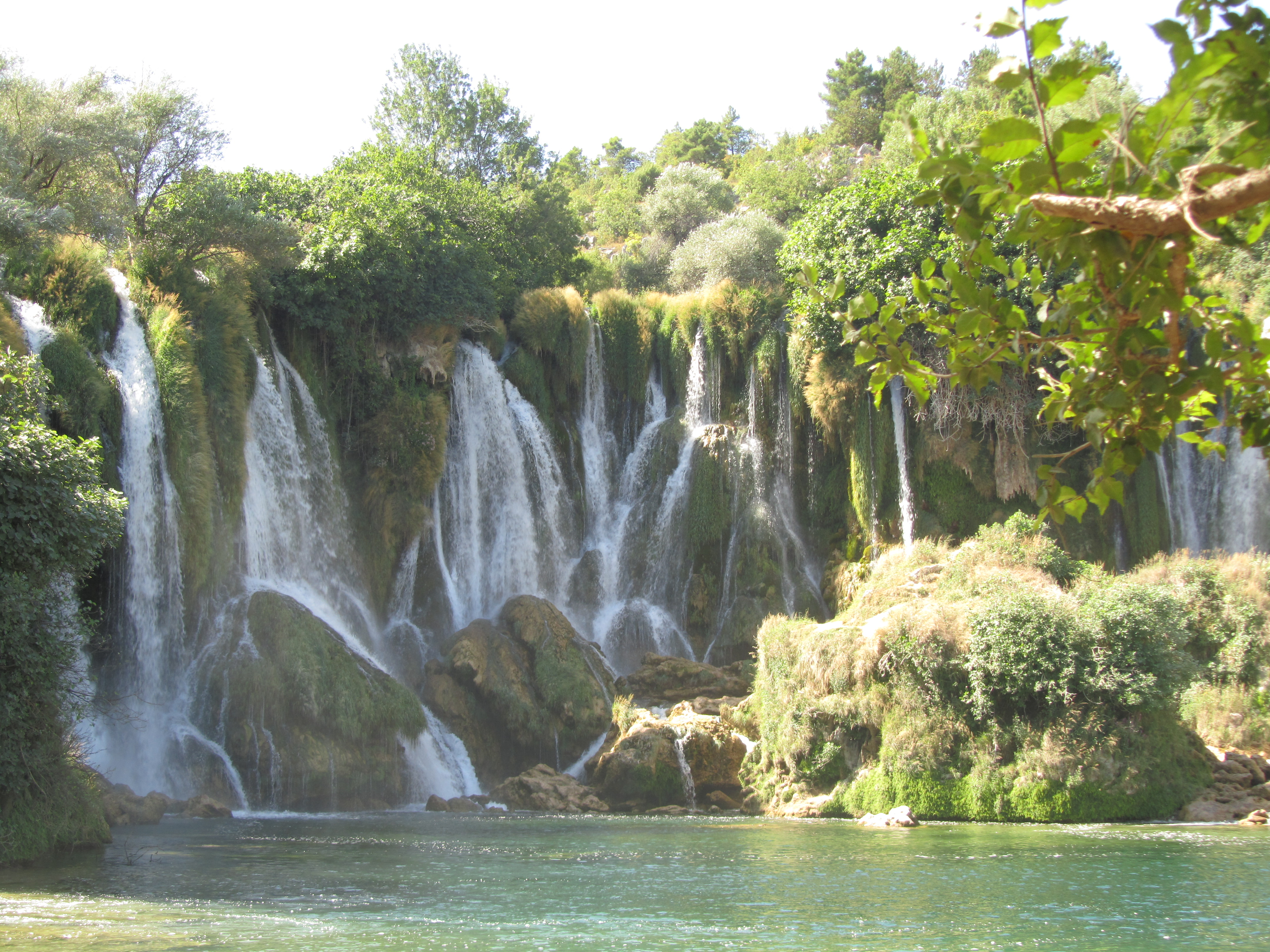 Kravica Waterfalls (river Trebižat) near Ljubuški in Hercegovina, Bonia and HercegovinaHrvatski: Kravica slap u Bosni i Hercegovini, 10 km od Međugorja, u mjestu Studenci kod Ljubuškog (Rijeka: Trebižat)